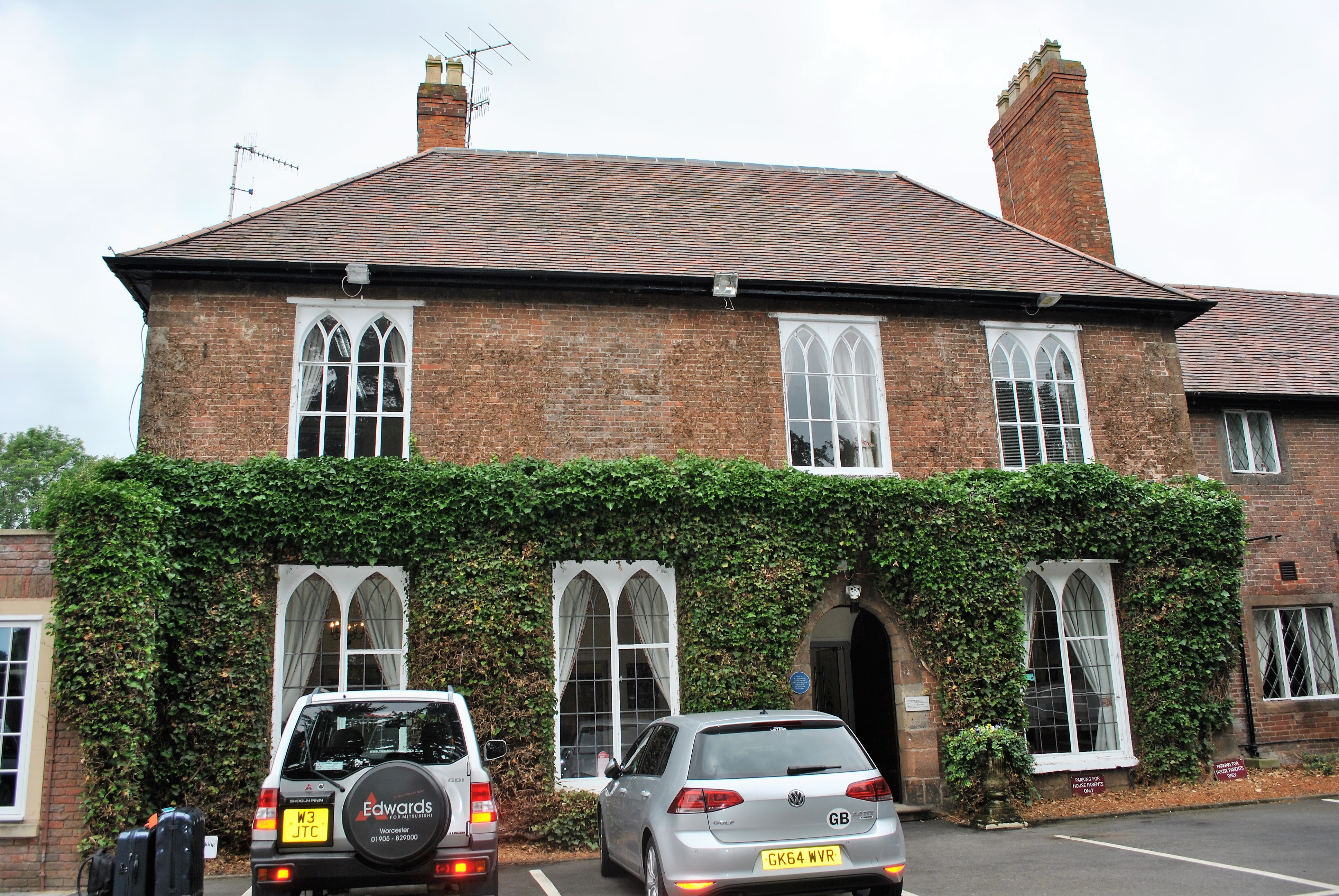 Home of A.E. Housman, Scholar and Poet, in his boyhood from 1860 to 1873 and again from 1878 to 1882. His younger brother Laurence, author of "Victoria Regina" and other plays, was born here in 1865.